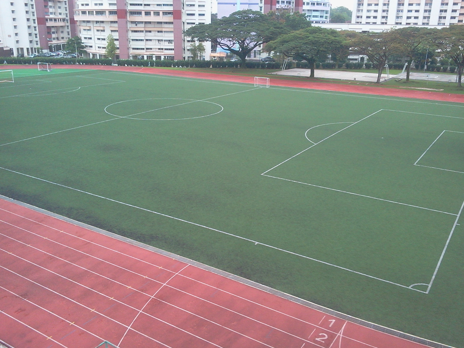 The synthetic sports field of Jurong Junior College, Singapore, viewed from the 4th floor of the People Development Block.